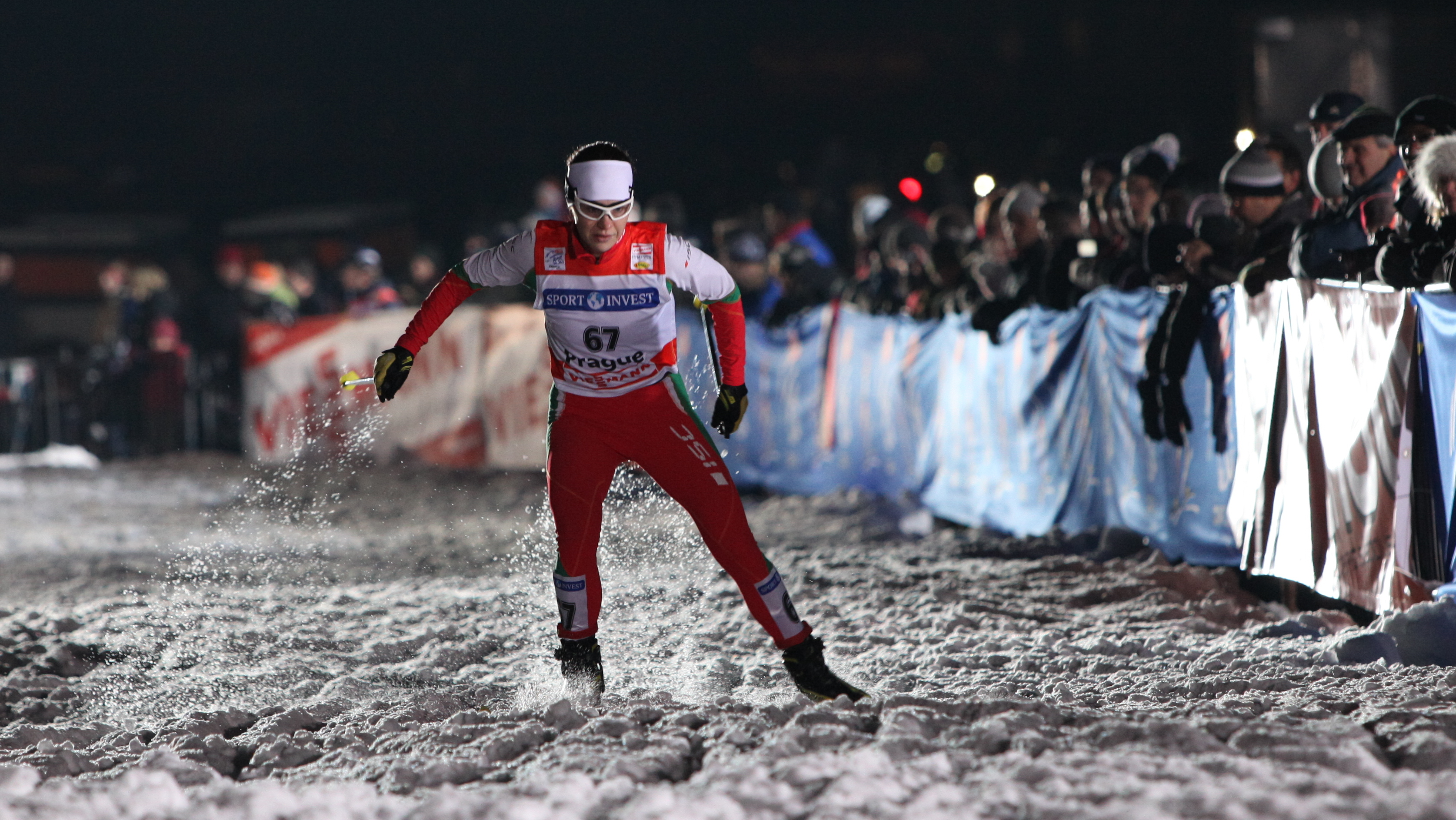 Ekaterina Rudakova, Belarusian cross-coutry skier, in 2010